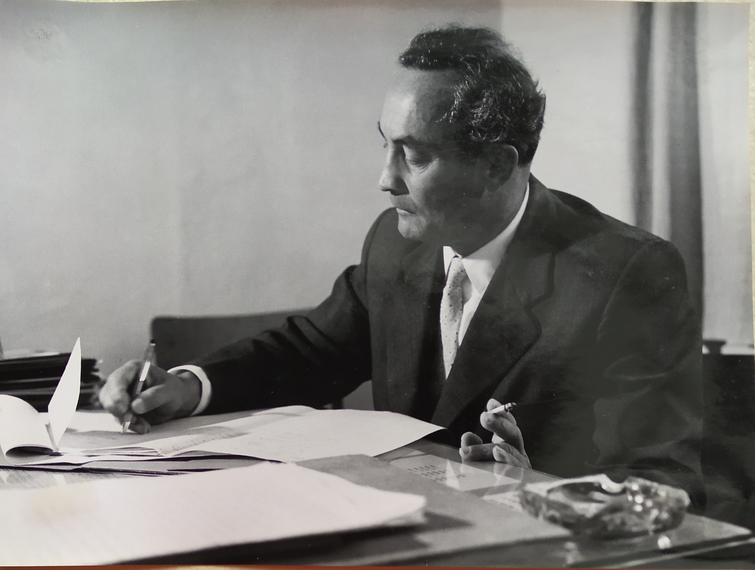 Yair Katz, first principal of Hugim School, Haifa